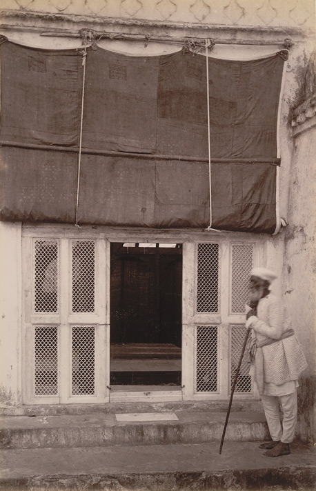 View of the entrance to the chamber of Aurangzeb's Tomb photographed from the Curzon Collection: 'Views of Caves of Ellora and Dowlatabad Fort in H.H. the Nizam's Dominions' taken by Deen Dayal in the 1890s. Aurangzeb's Tomb (d.1707) is situated at Rauza or Khuldabad, meaning ‘Heavenly Abode’, an old walled town in Maharashtra. He funded his resting place by knitting caps and copying the Qu’ran, during the last years of his life, works which he sold anonymously in the market place. Unlike the other great Mughal rulers, Aurangzeb’s tomb is not marked with a large mausoleum instead he was interred in an open air grave in accordance with his Islamic principles. A gateway and domed porch were added in 1760. Lord Curzon and the Nizam of Hyderabad had a marble railing erected around the grave in 1911.